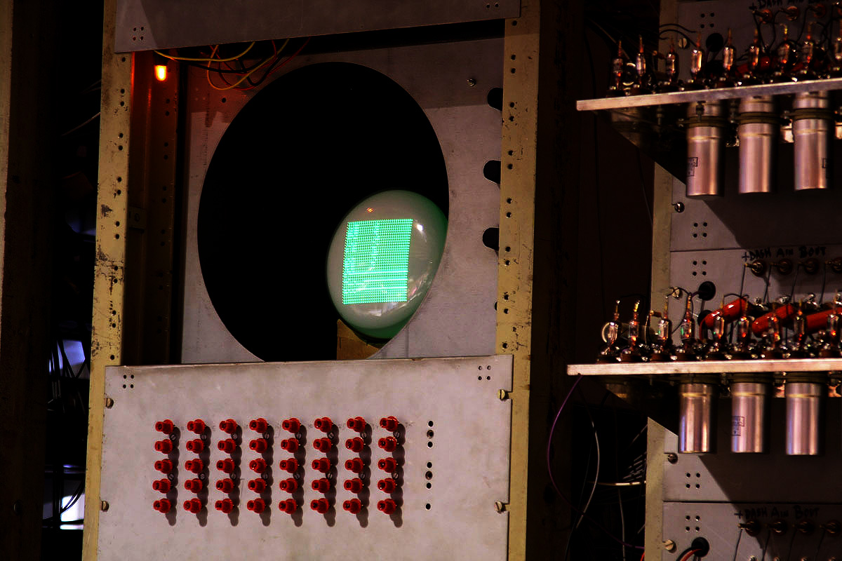 Photograph of the Monitor and Control 'Node' of the replica SSEM. The CRT in this image is used as the output device, and the red switches near the bottom left of the photo are used as the input device.